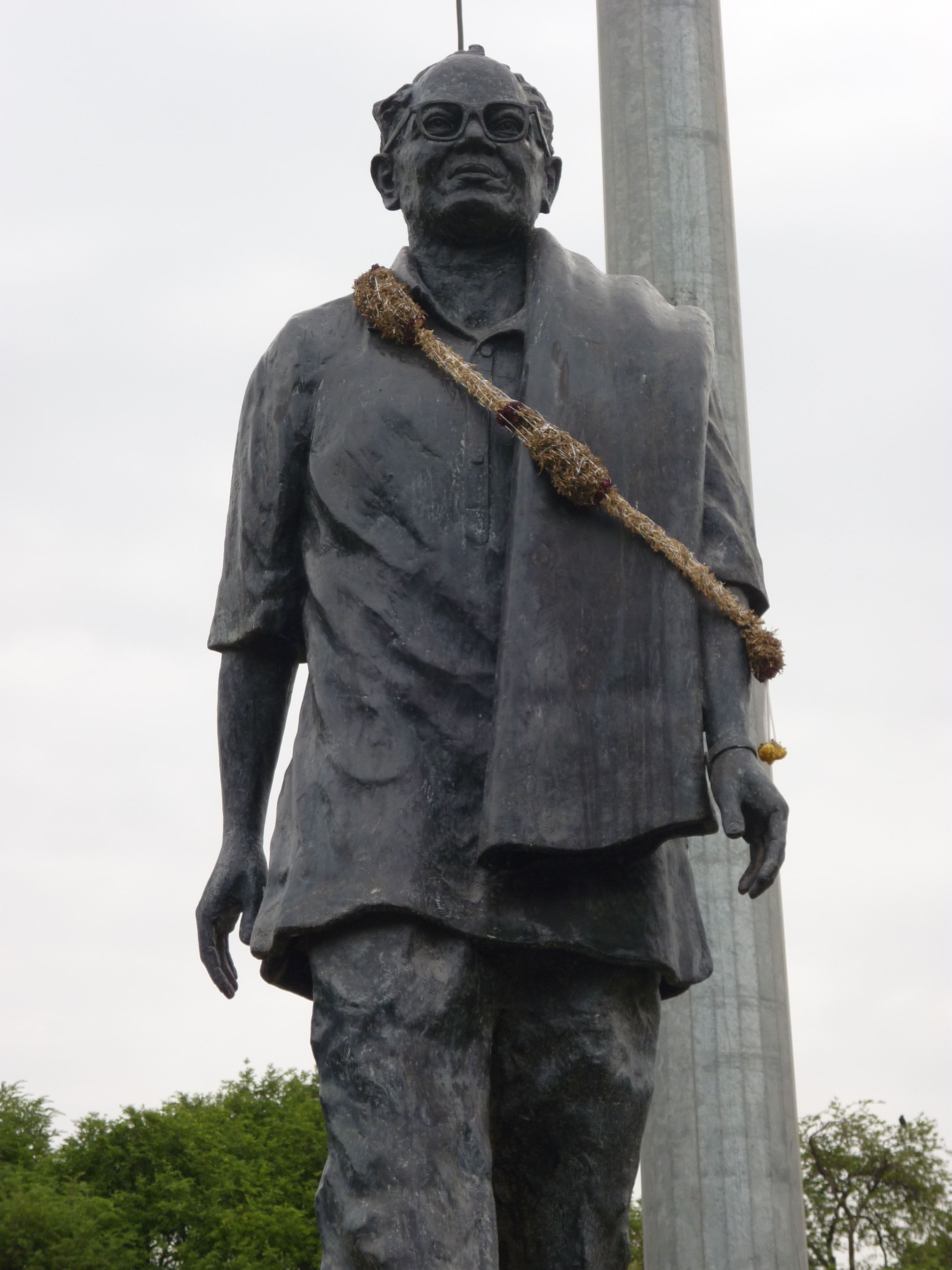 P Sundaraiah park in Hydrabadh